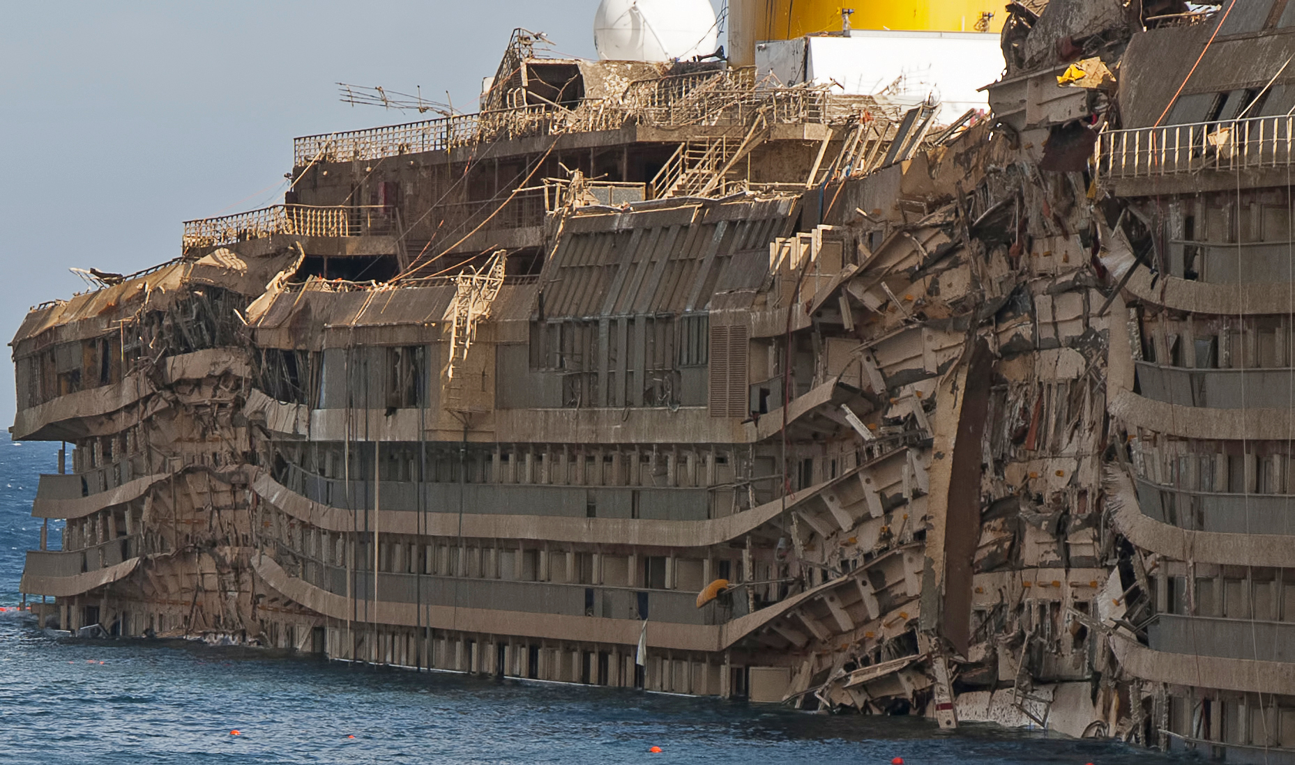 A spectral view of the starboard side of the Costa Concordia